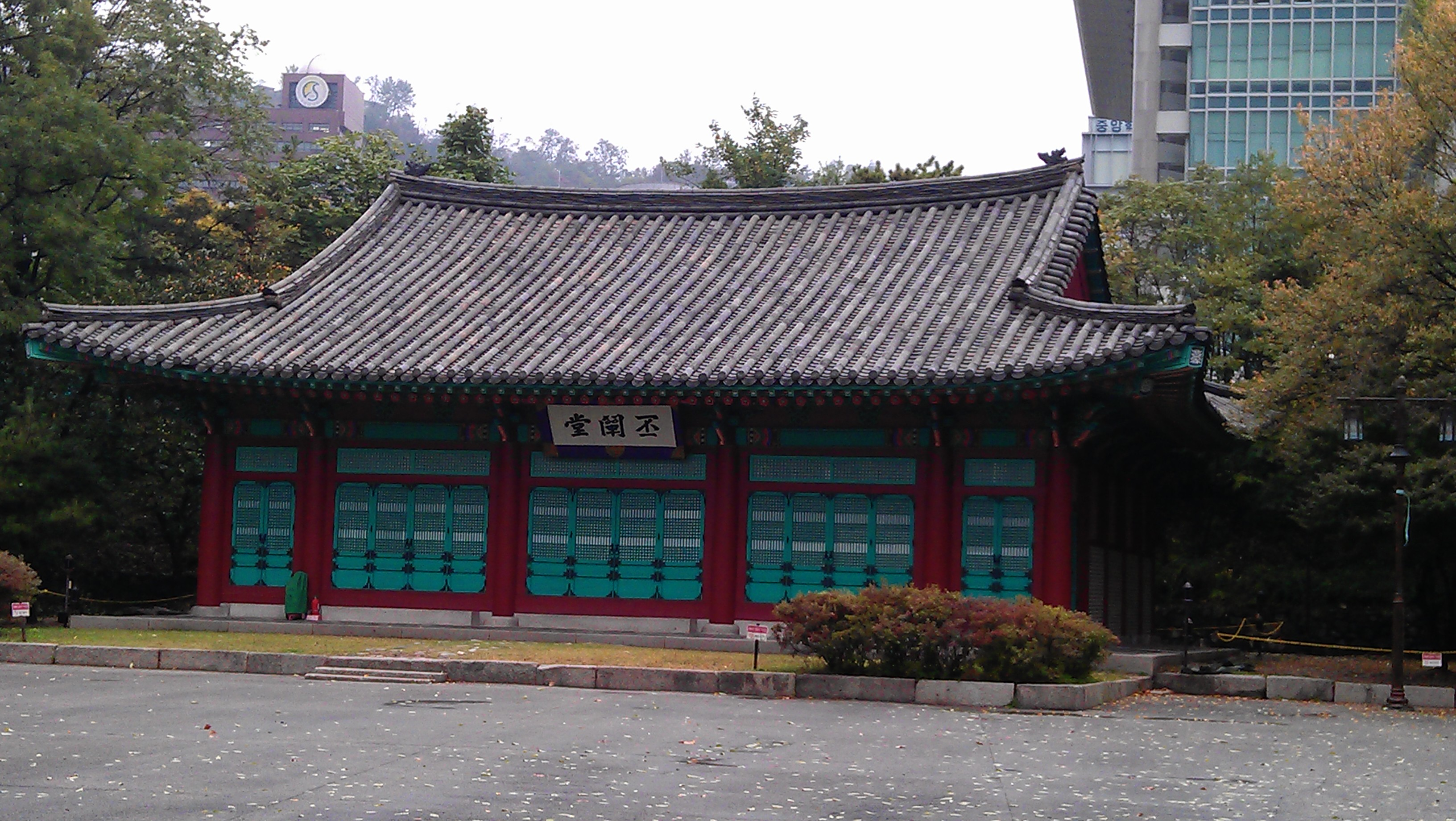 The State Exam Hall at Sungkyunkwan.